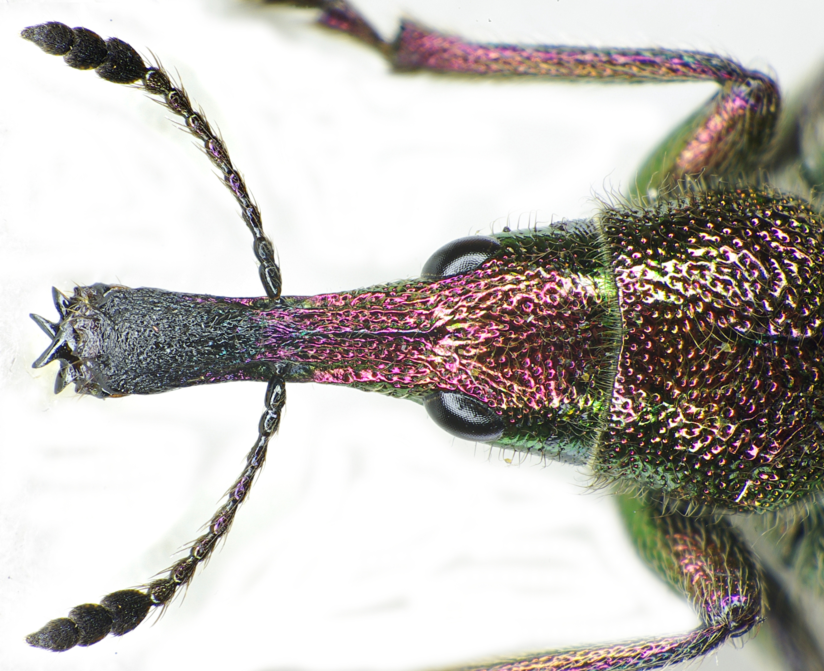 Rhynchites giganteus from Hungary, snout of female